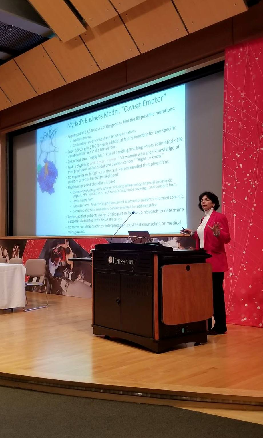 Gina Colarelli O'Connor